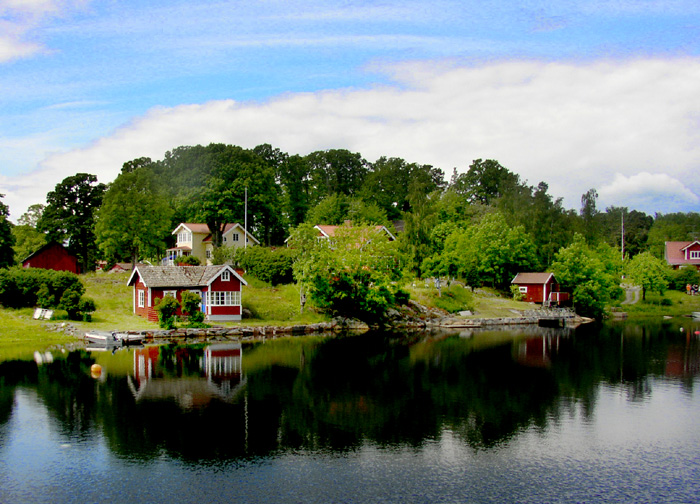 Village Vagnsunda at the island Yxlan in the Archipelago of Stockholm